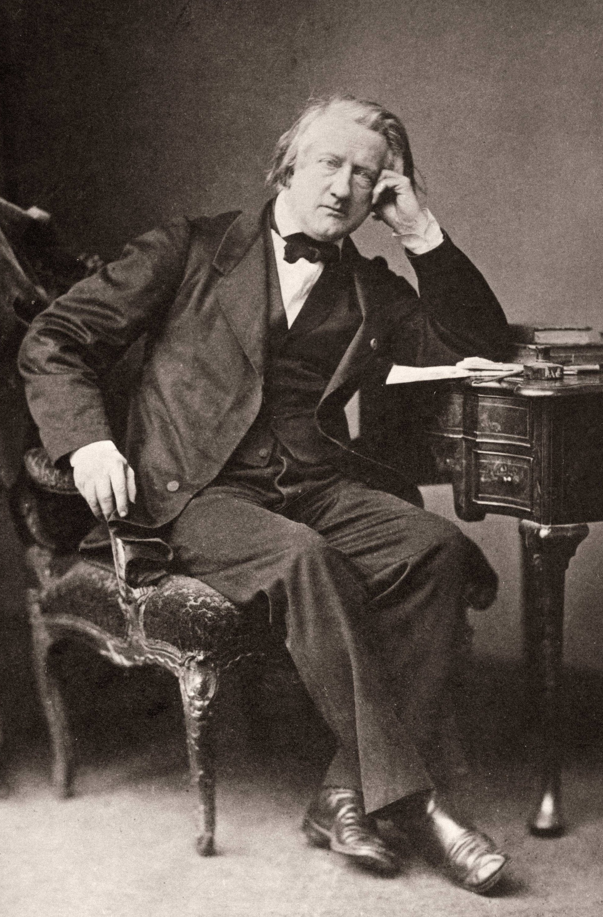 Portrait of Henri Victor Regnault (1810-1878)